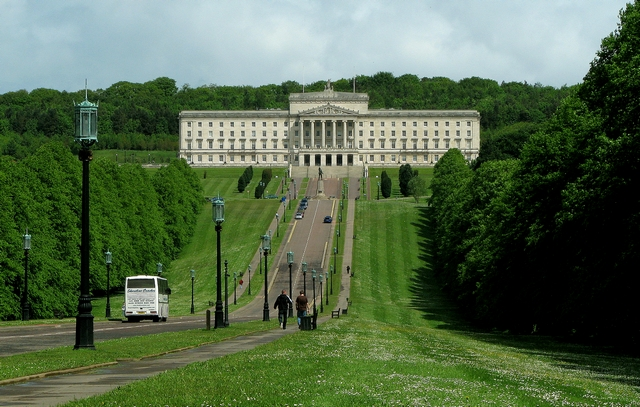 Prince of Wales Avenue and Parliament Buildings, Stormont. A view along the upper section of Prince of Wales Avenue 1324223 with Parliament Buildings 693347 dominating the scene. You should also be able to make out the statue of Sir Edward Carson 693337 just in front of Parliament Buildings.